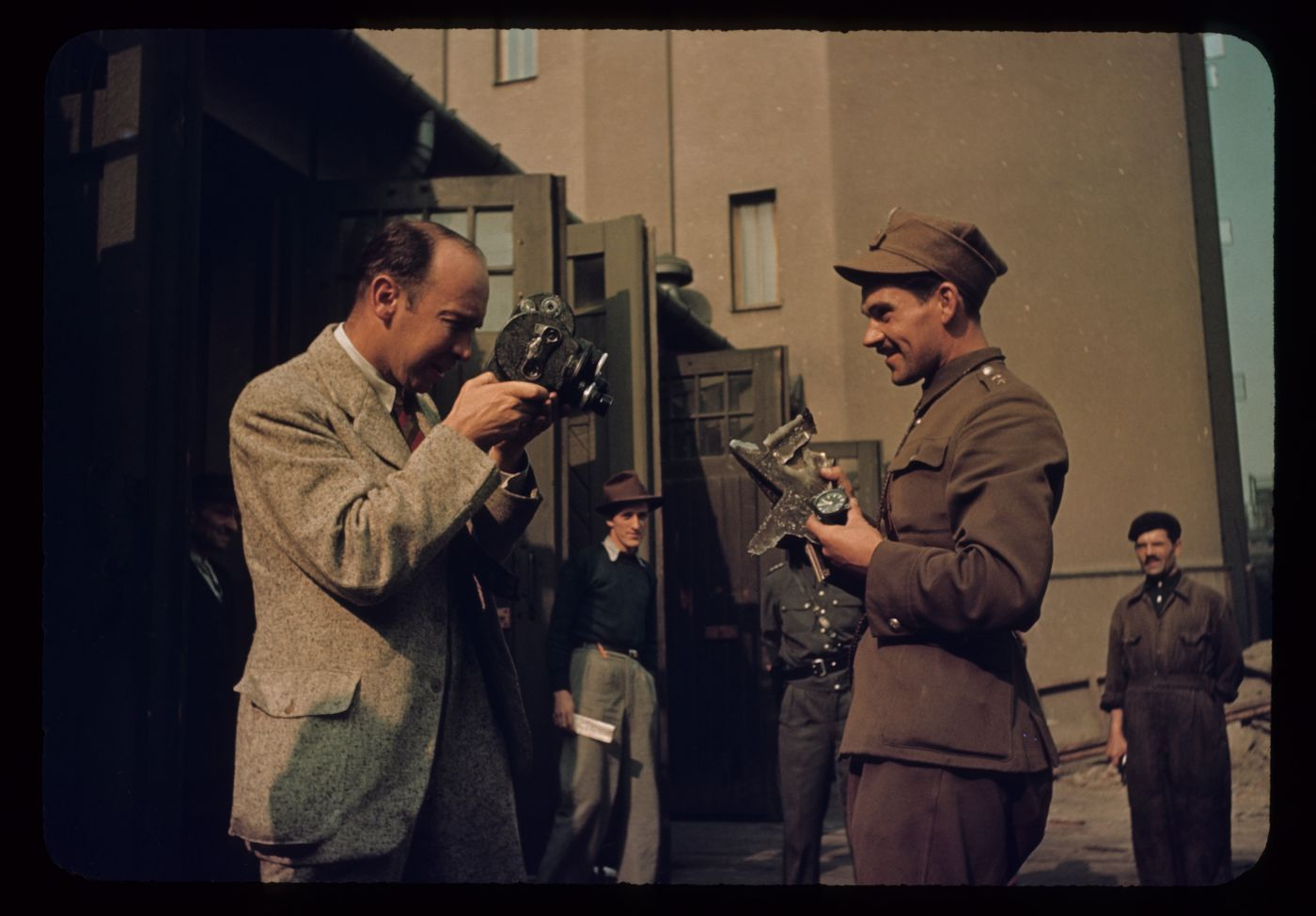 Polish Army soldier holding last remaining part of German bomber He-111 destroyed by Poles over Warsaw when airplane was killing civilians. Visible journalist Julien Bryan on the left side. Bryan said that Polish anti-aircraft artillery shot down about 50 enemy aircrafts during his visit. Powiśle Power Station, Warsaw, Poland 1939. Kodak Kodachrome genuine color photo by Julien Bryan. Other color photos showing destroyed German bomber He-111 near the Bartoszewicza Street, Polish soldiers fighting during the Second World War, fleeing civilians and the Old Town. More color photographs, one Kodachrome roll survived in the United States Holocaust Memorial Museum in Washington.WARNING:This photo is tiny. Please add larger photo. Thanks.